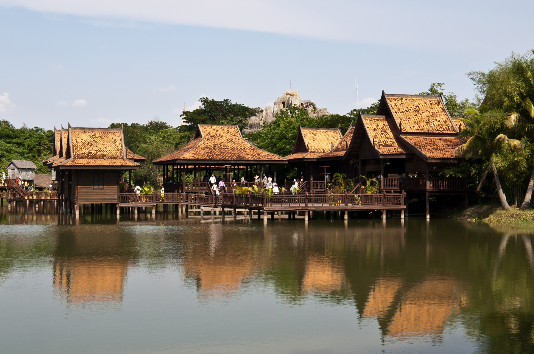 Cambodian Cultural Village during Khmer New Year 2011